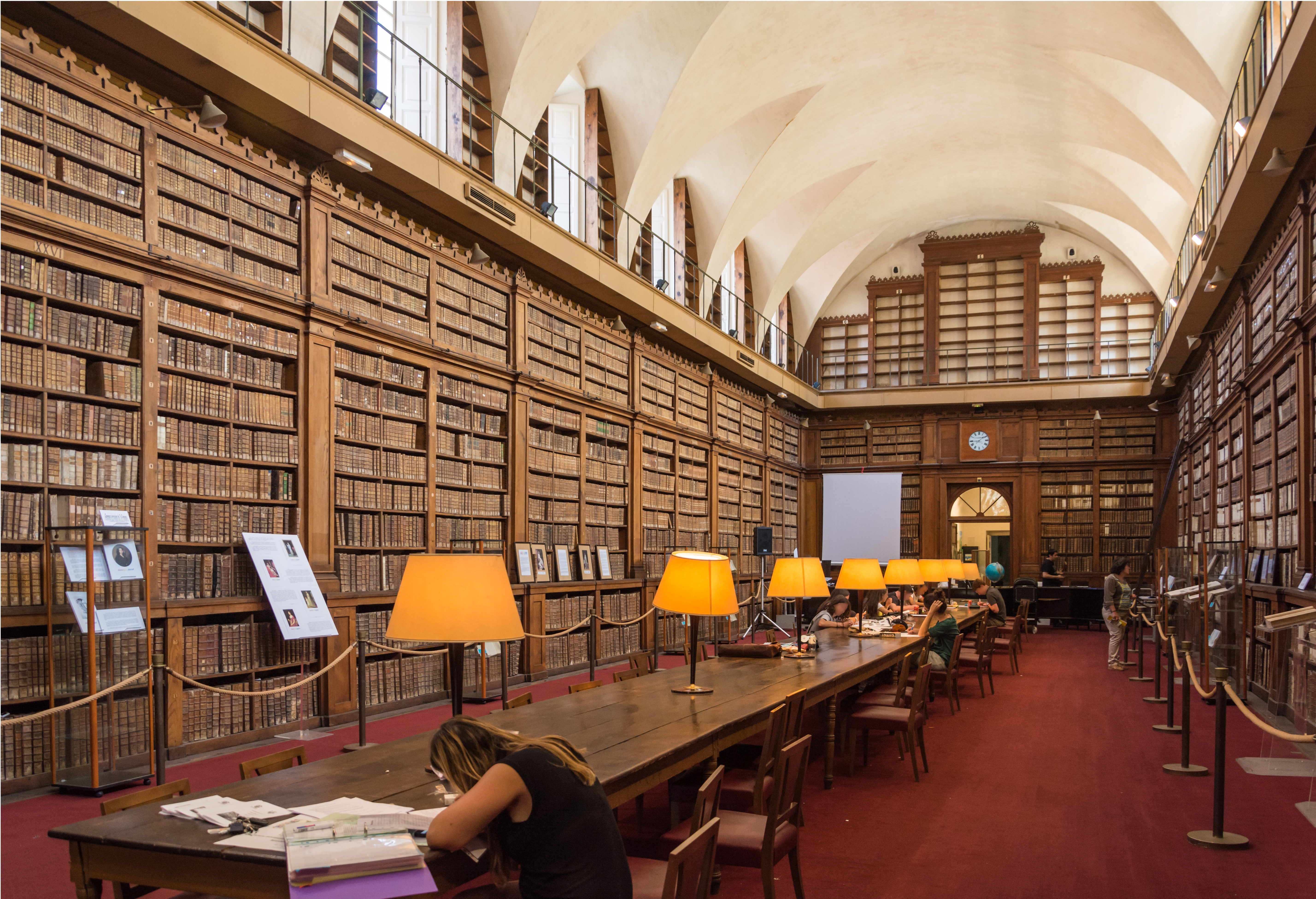 The Bibliothèque du palais Fesch was founded in 1801 and keeps more than 40000 works from the 15th to 19th century. It is located in the ground floor of the north wing of Palais Fesch, is protected as historical monument and still open for public use.